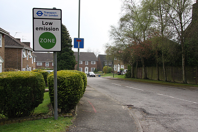 London low emission zone sign at Greenacre Close, Edgware, London